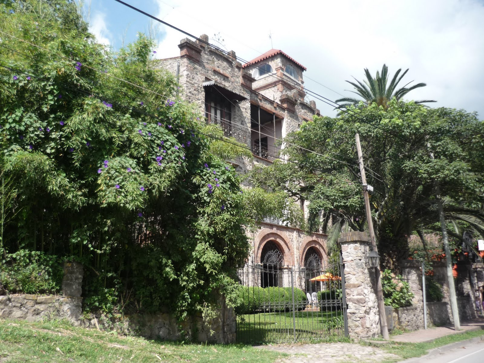 Castillo de San Lorenzo